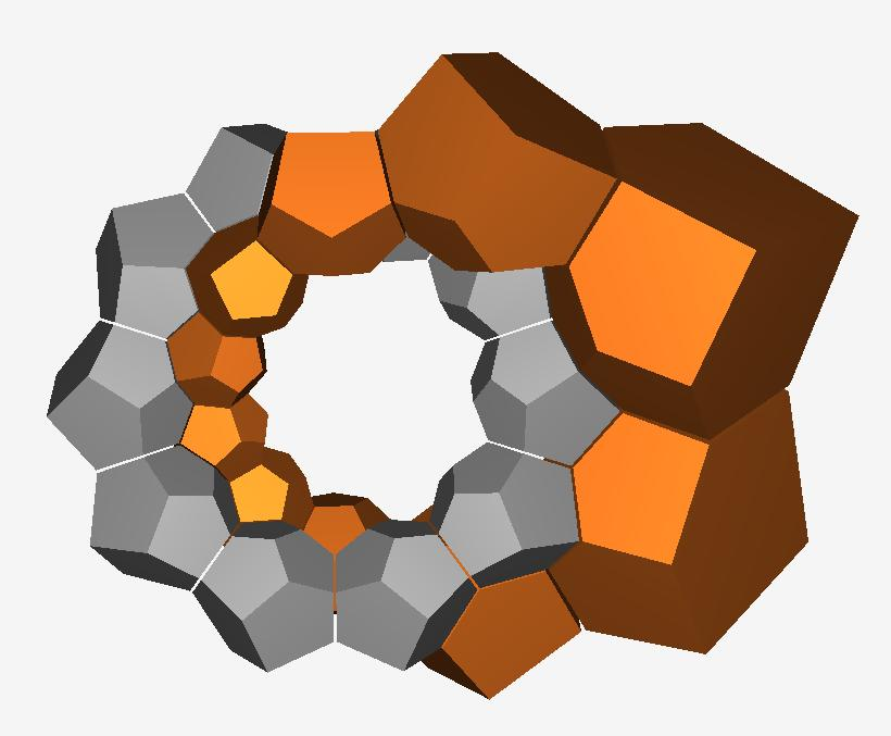 Two intertwined rings of the 120-cell.